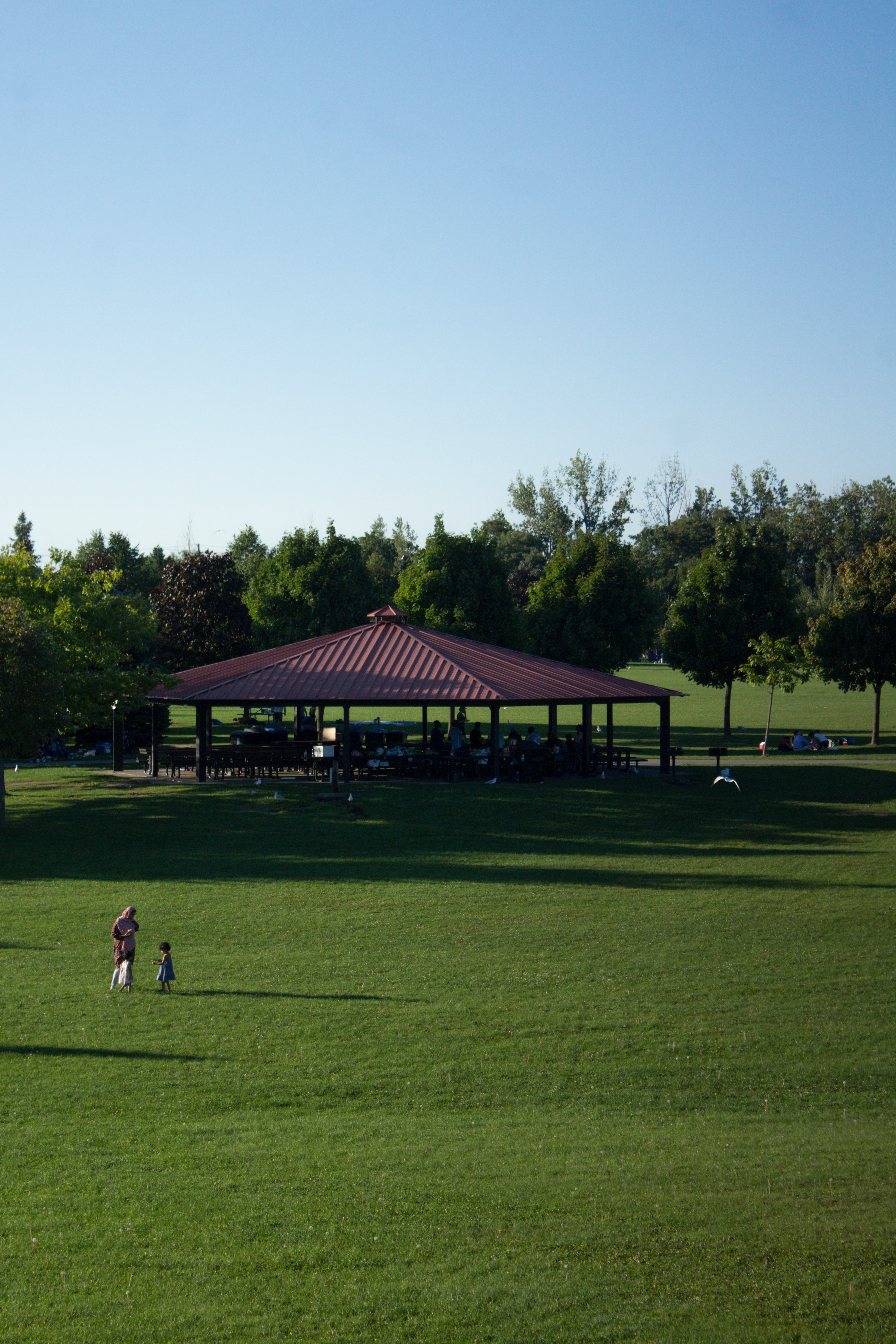 One of the picnic pavilions in Milliken Park hosting a local barbeque.